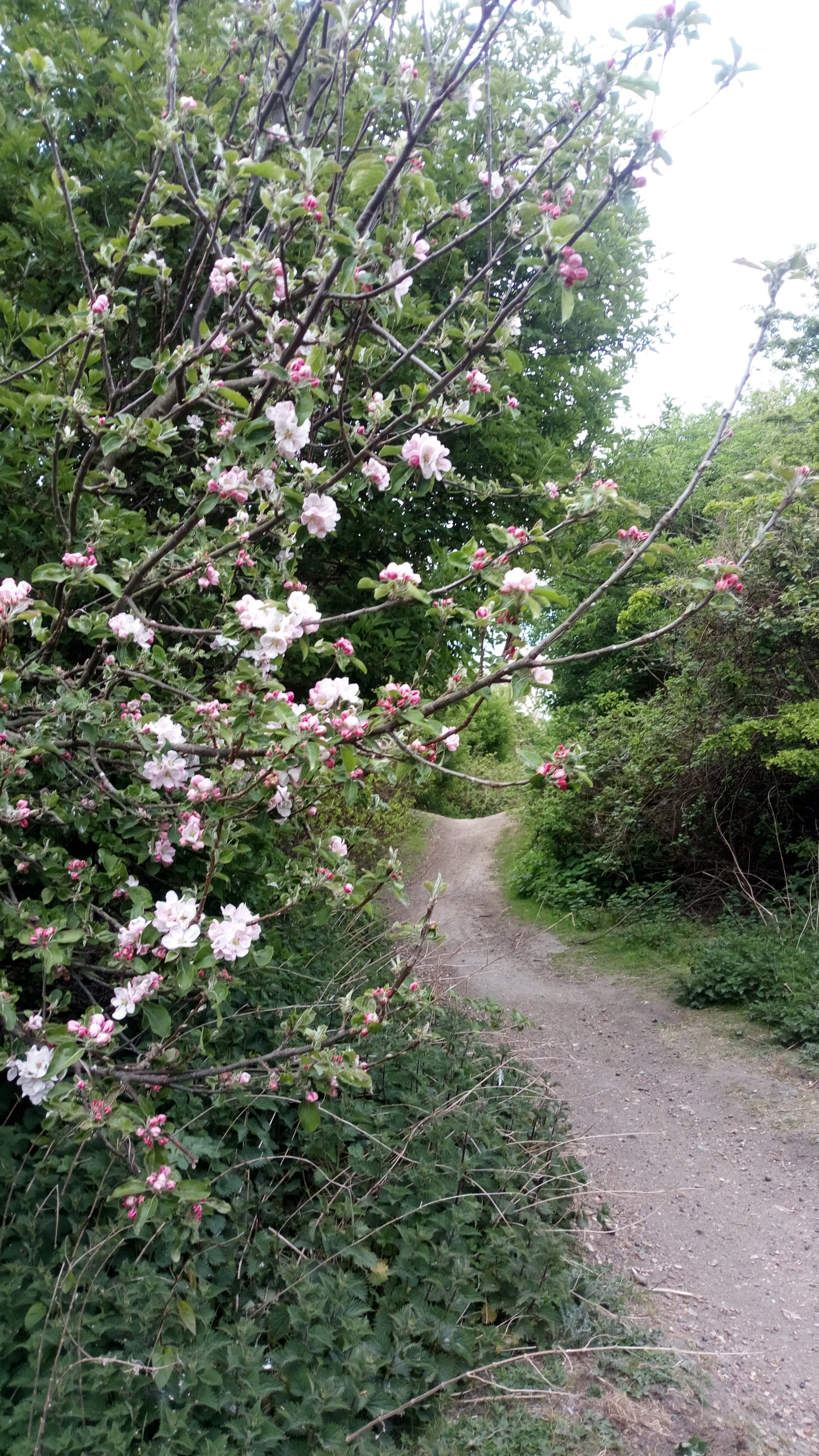 BMX trail